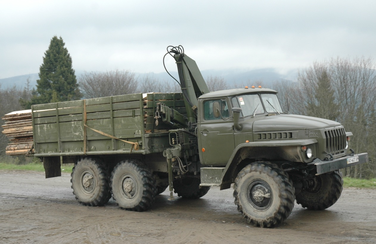 Ural-4320 6x6 truck at Veretskyi Pass (Transcarpathian oblast, Ukraine)